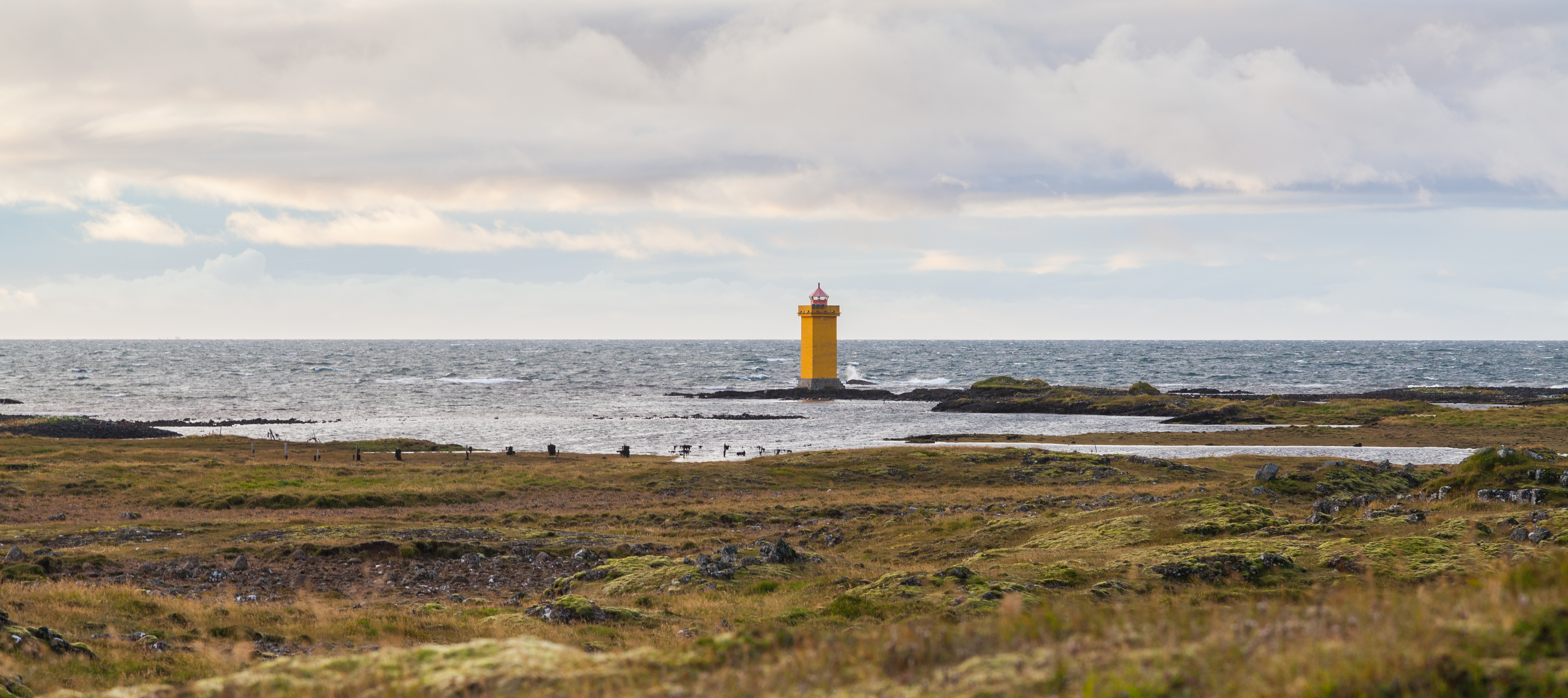 Gerhistangi lighthouse, Vogar, Suðurnes, Iceland